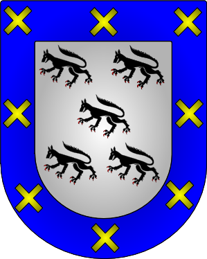 Arms of the Portuguese Barons of Alvito Made by JSobral